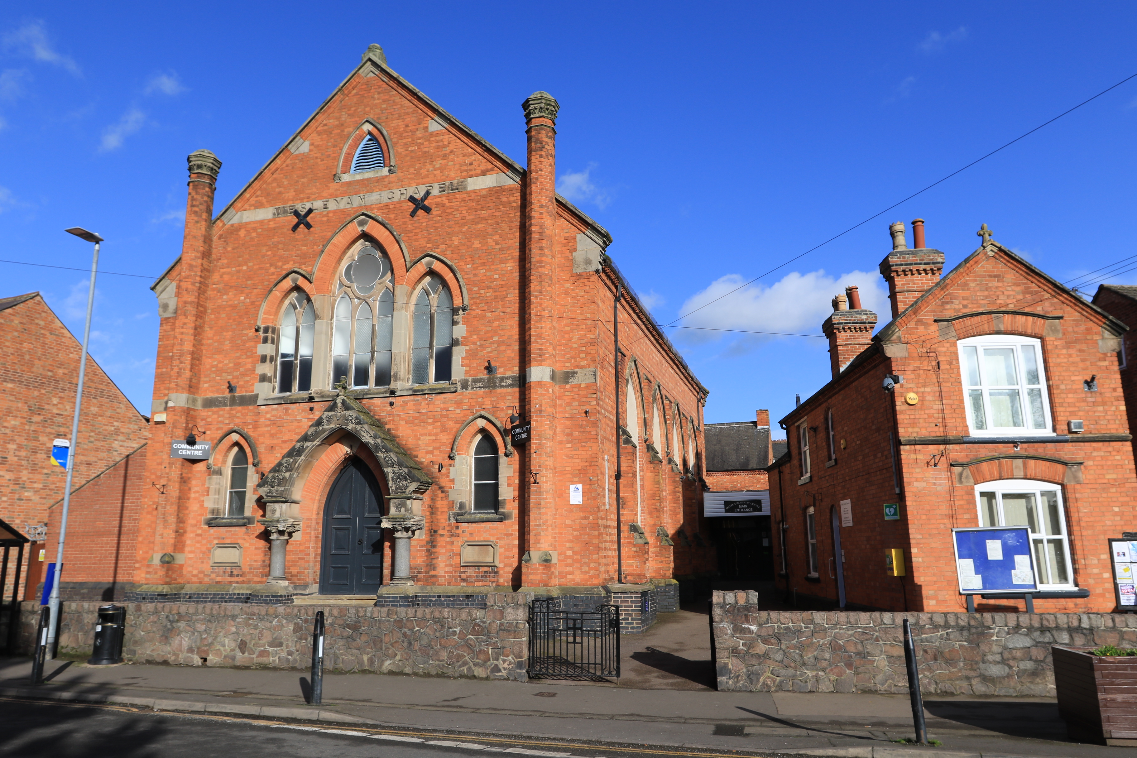 Wesleyan Methodist Church, Sileby dating from 1884. Architect W.H. Noble of Leicester.